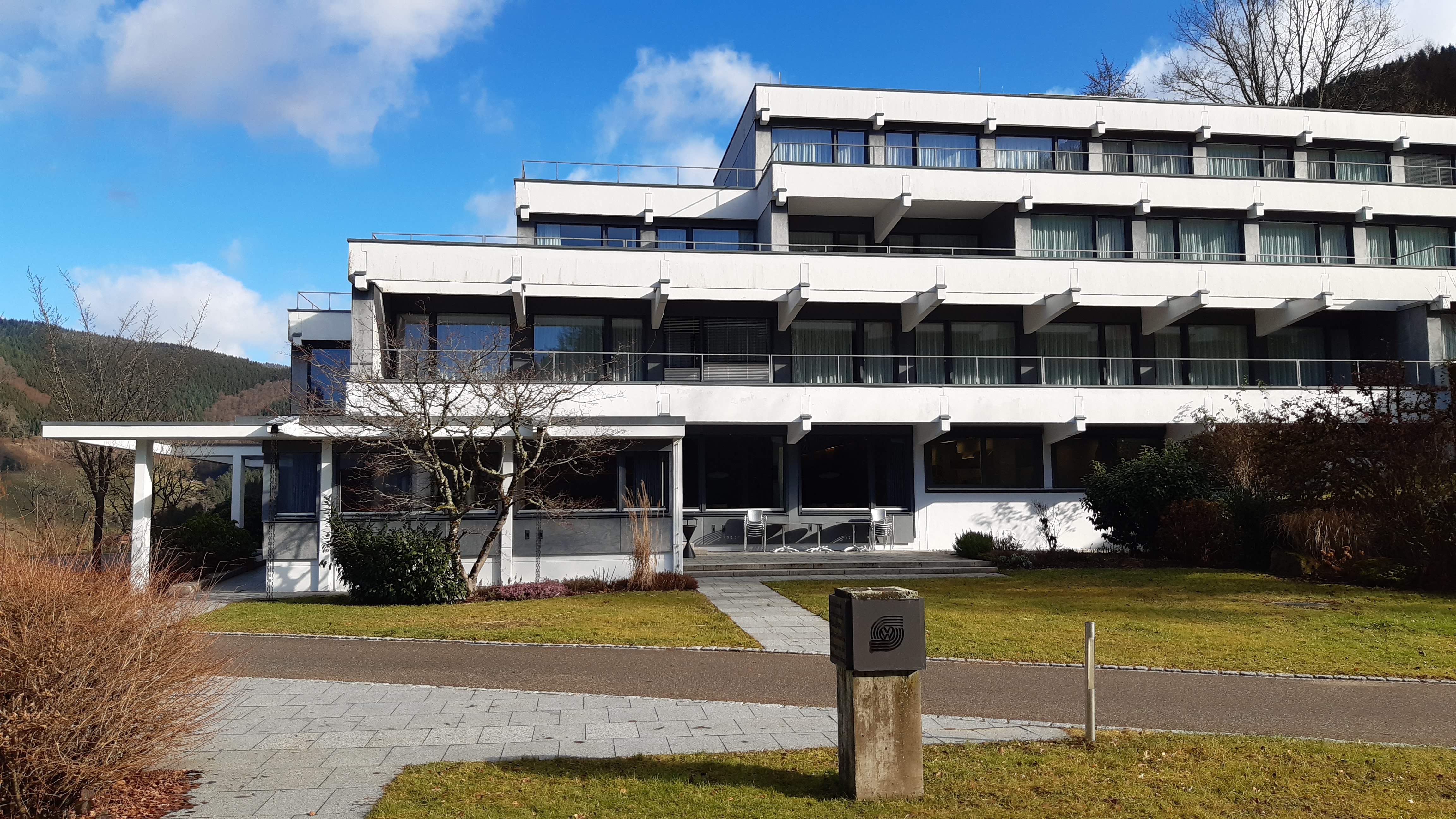 Mathematisches Forschungsinstitut Oberwolfach (=Mathematical research institute Oberwolfach). Oberwolfach, Schwarzwald region, Germany, Europe